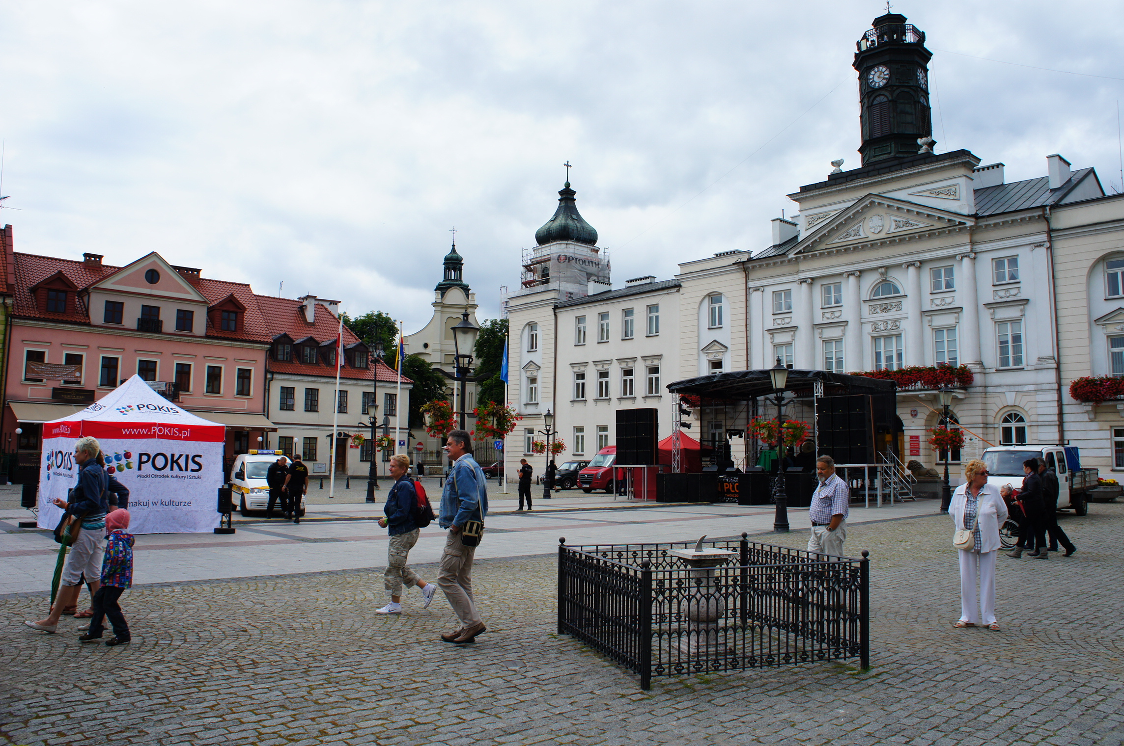 Plock, Poland